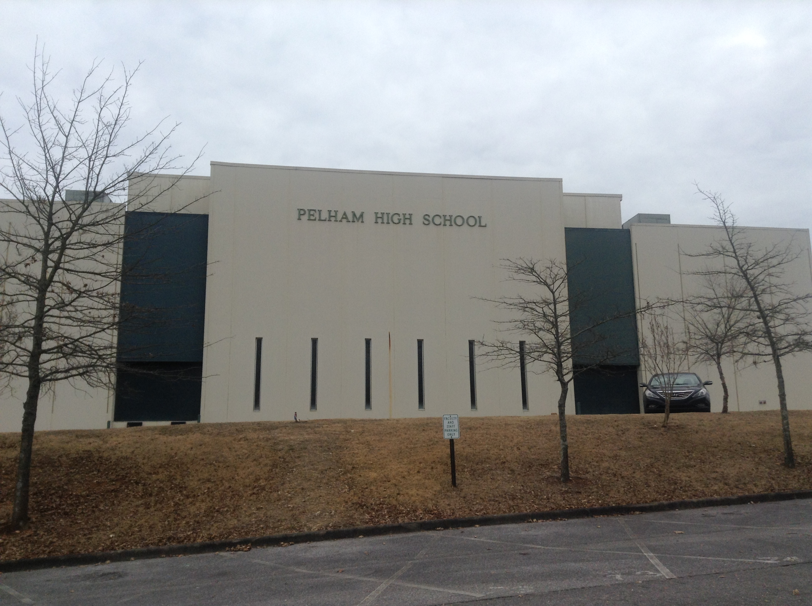 The front of Pelham High School, located in Pelham, AL